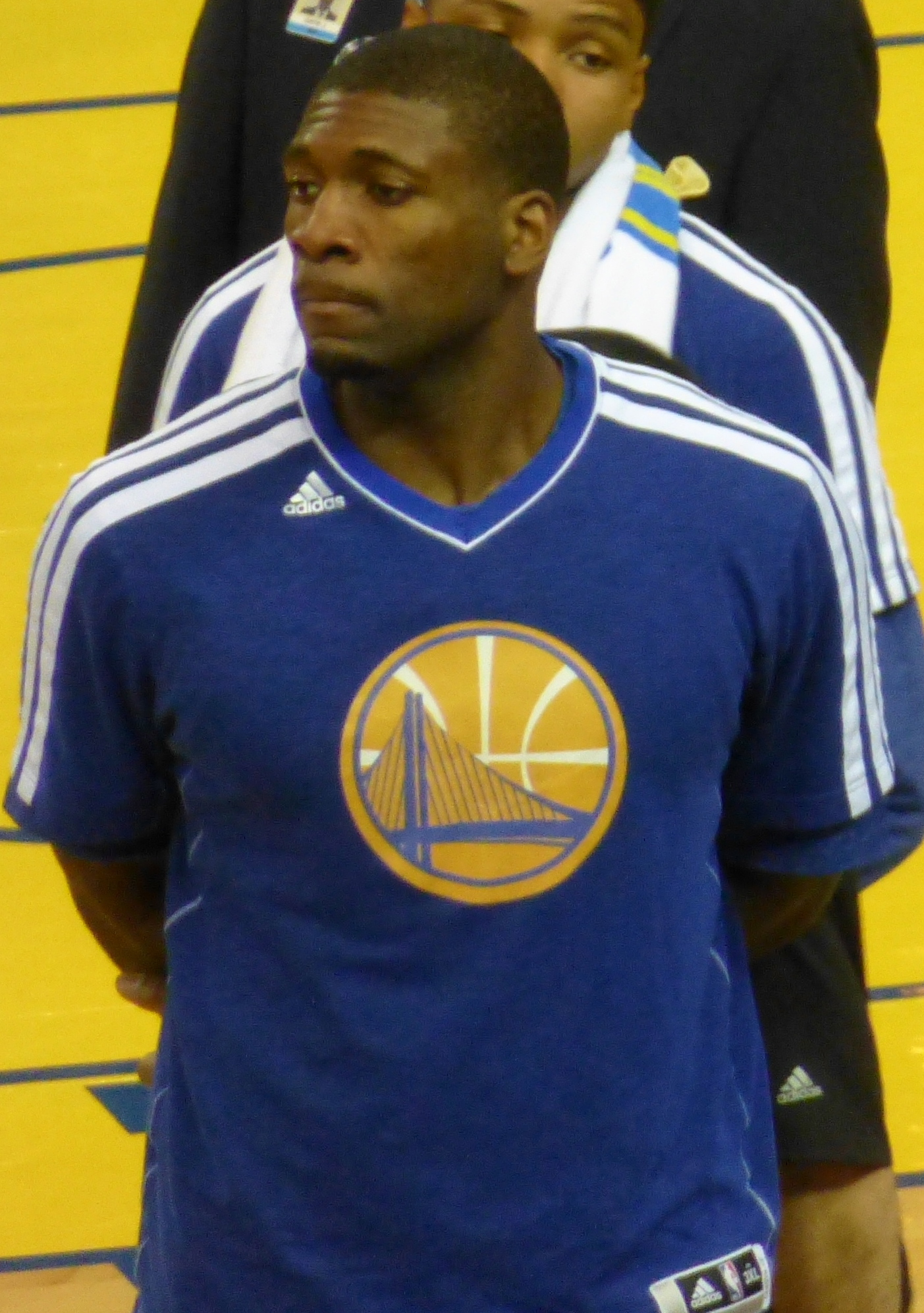 Festus Ezeli (left) and Andris Biedrins (right), Sacramento Kings at Golden State Warriors March 6, 2013